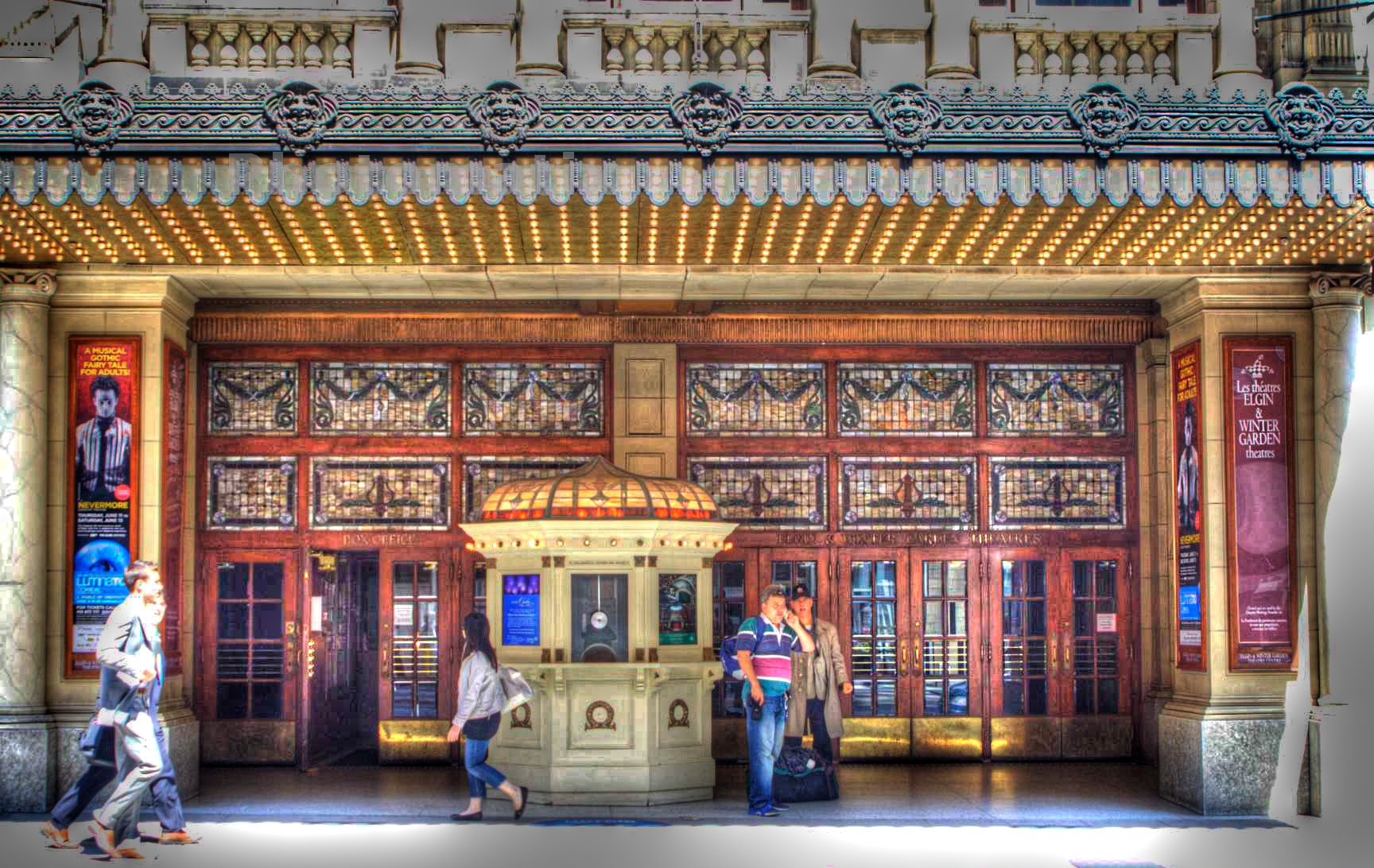 Elgin Wintergarden Theatre on Yonge Street, Toronto, Ontario, Canada.